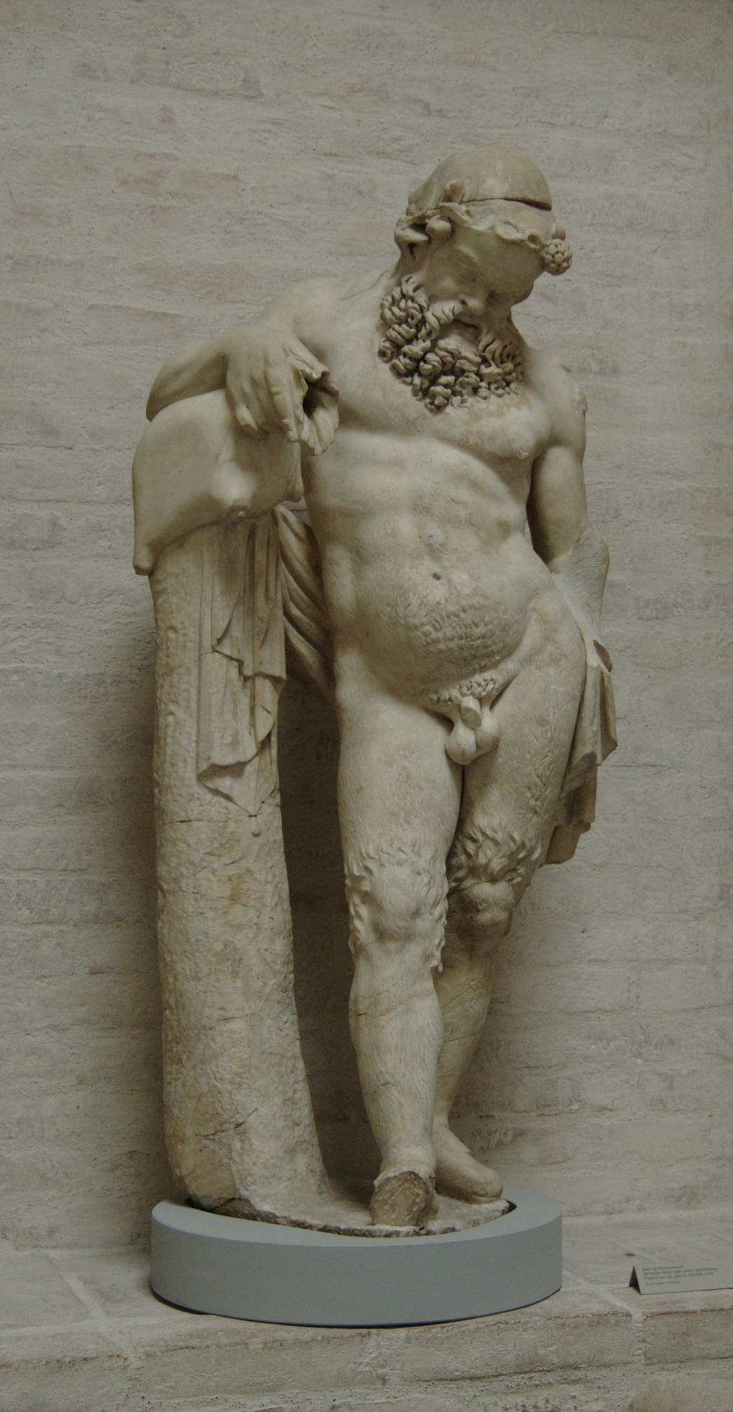 Silen, roman copy after Greek original (original from ca. 340–320 BC).